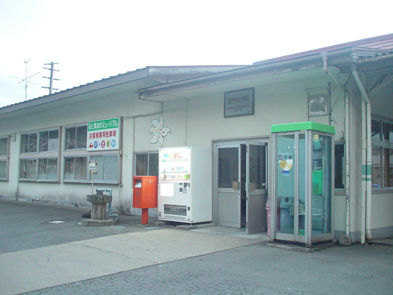 Old building of Rikuchu-Matsukawa Station